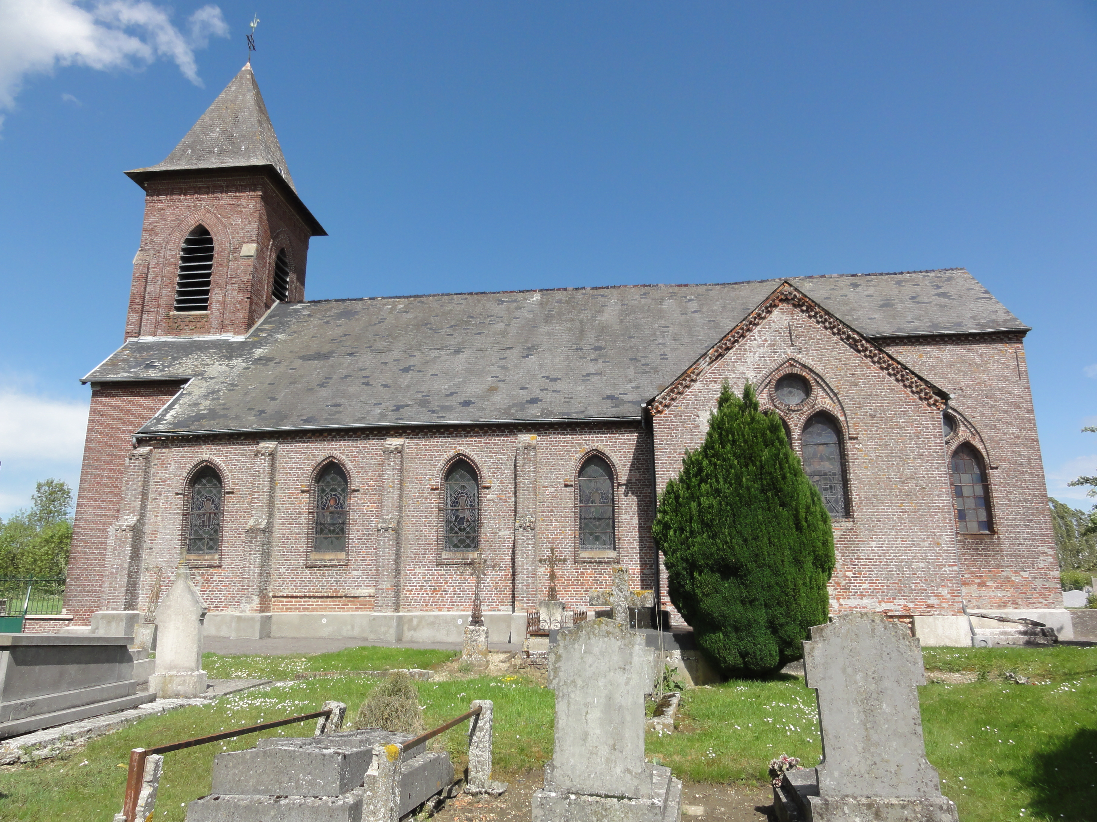 Renansart (Aisne) église